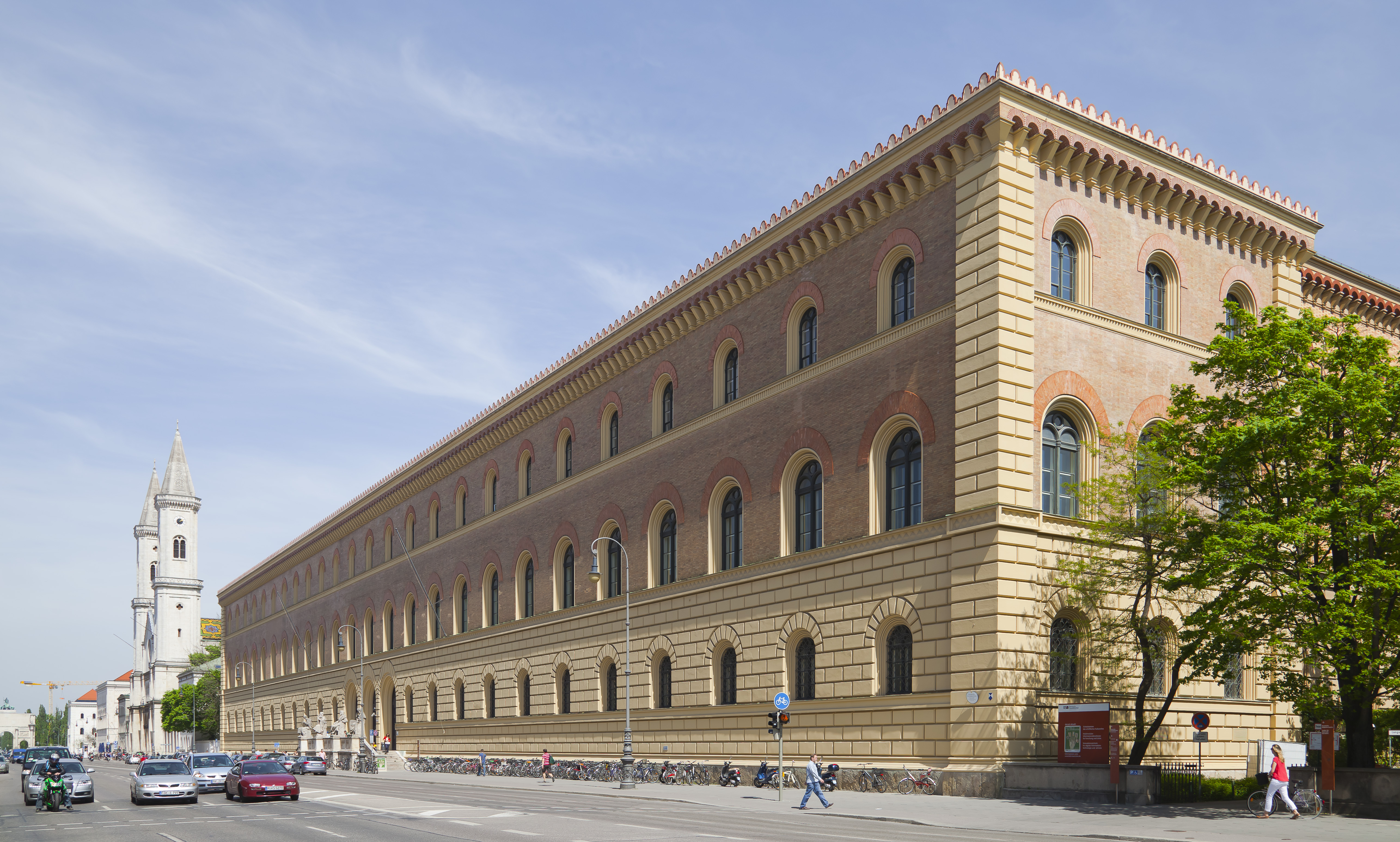 Bavarian State Library, Munich, Germany